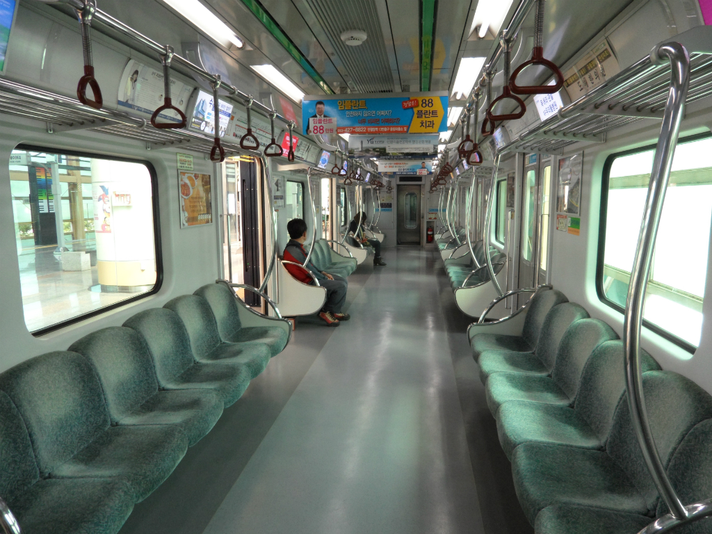 Daegu Metropolitan Transit Corporation line 2 12th unit